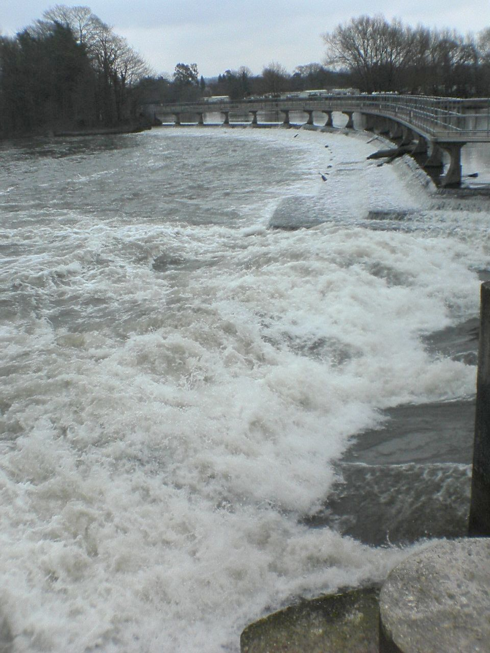 Hurley Weir on 4 Gates, view of the main wave